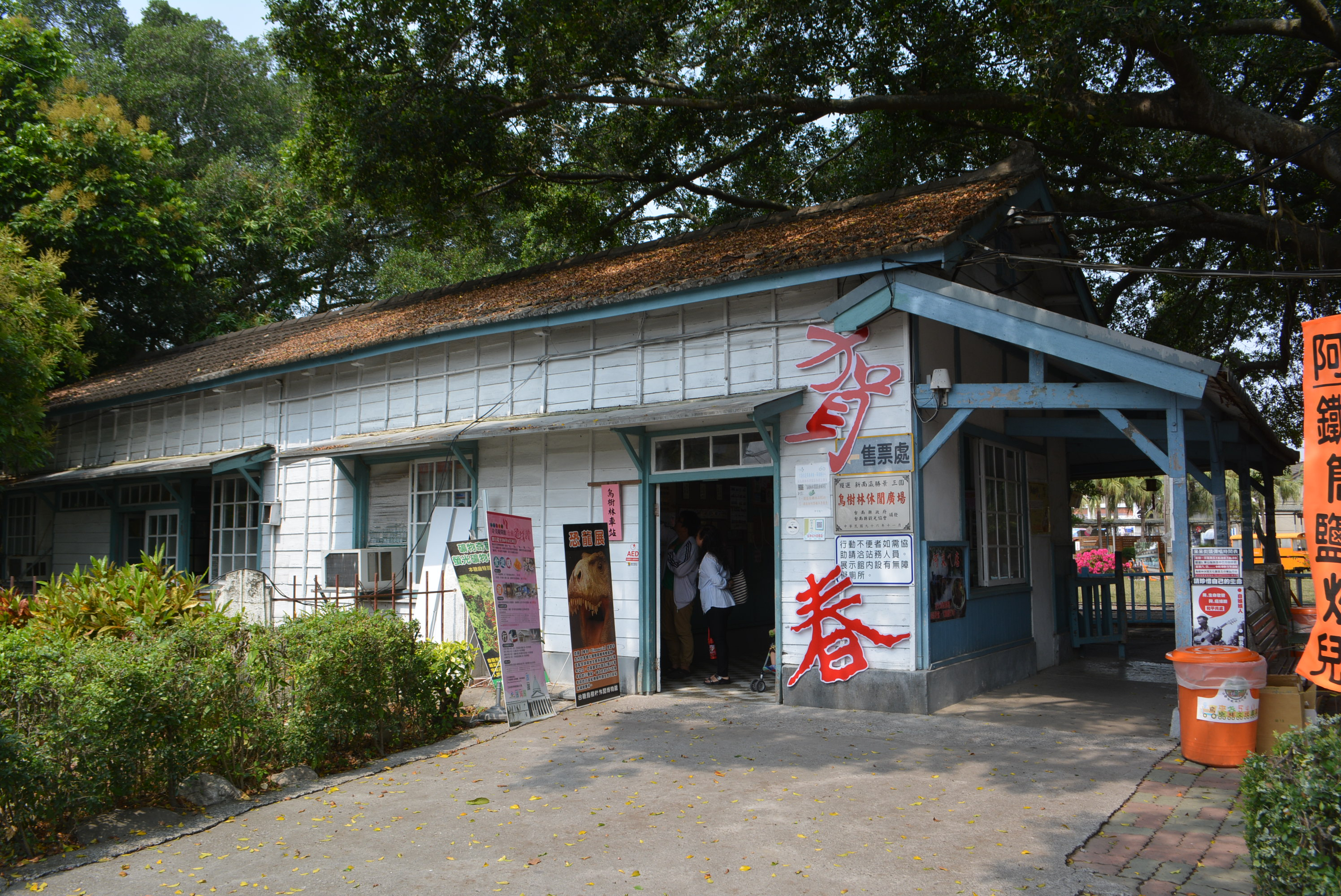 Wushulin Station entrance,Tainan Houbi,Taiwan